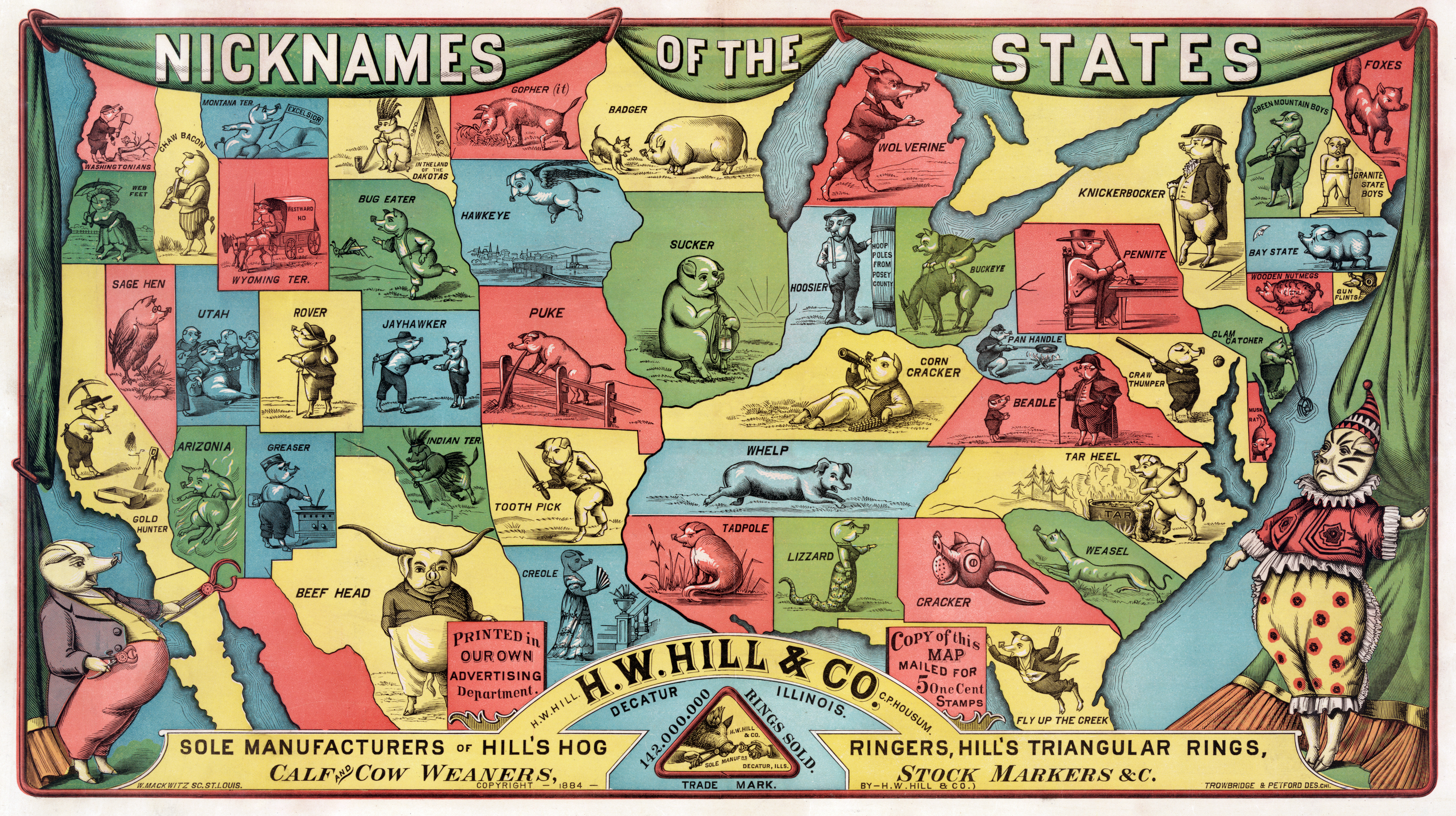 Map of the United States showing the state nicknames as hogs. Text reads: "Nicknames of the states. H.W. Hill & Co. Decatur Illinois, sole manufacturer of Hill's hog ringers, Hill's triangular rings, calf & cow weaners, stock markers, &c. Printed in our own advertising department; copy of this map mailed for 5 one cent stamps."